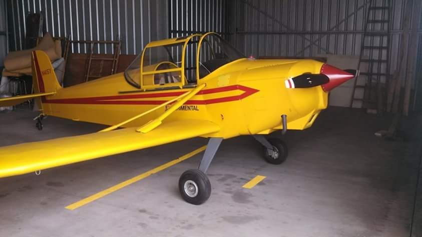 2013 Whitcraft 165. Powered by a Continental A-65-8 engine.